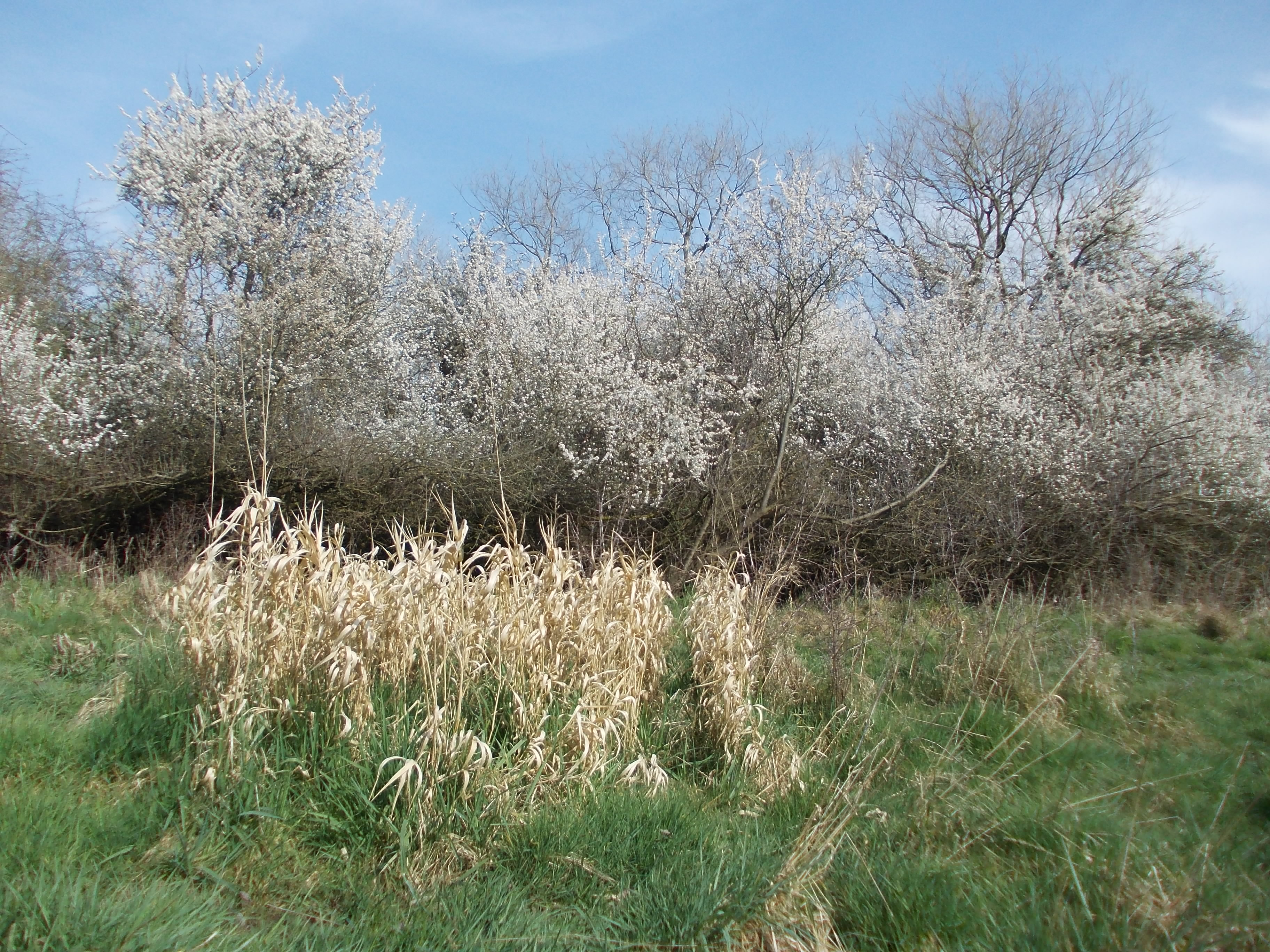 Blackthorn in bloom on Ickenham Marsh